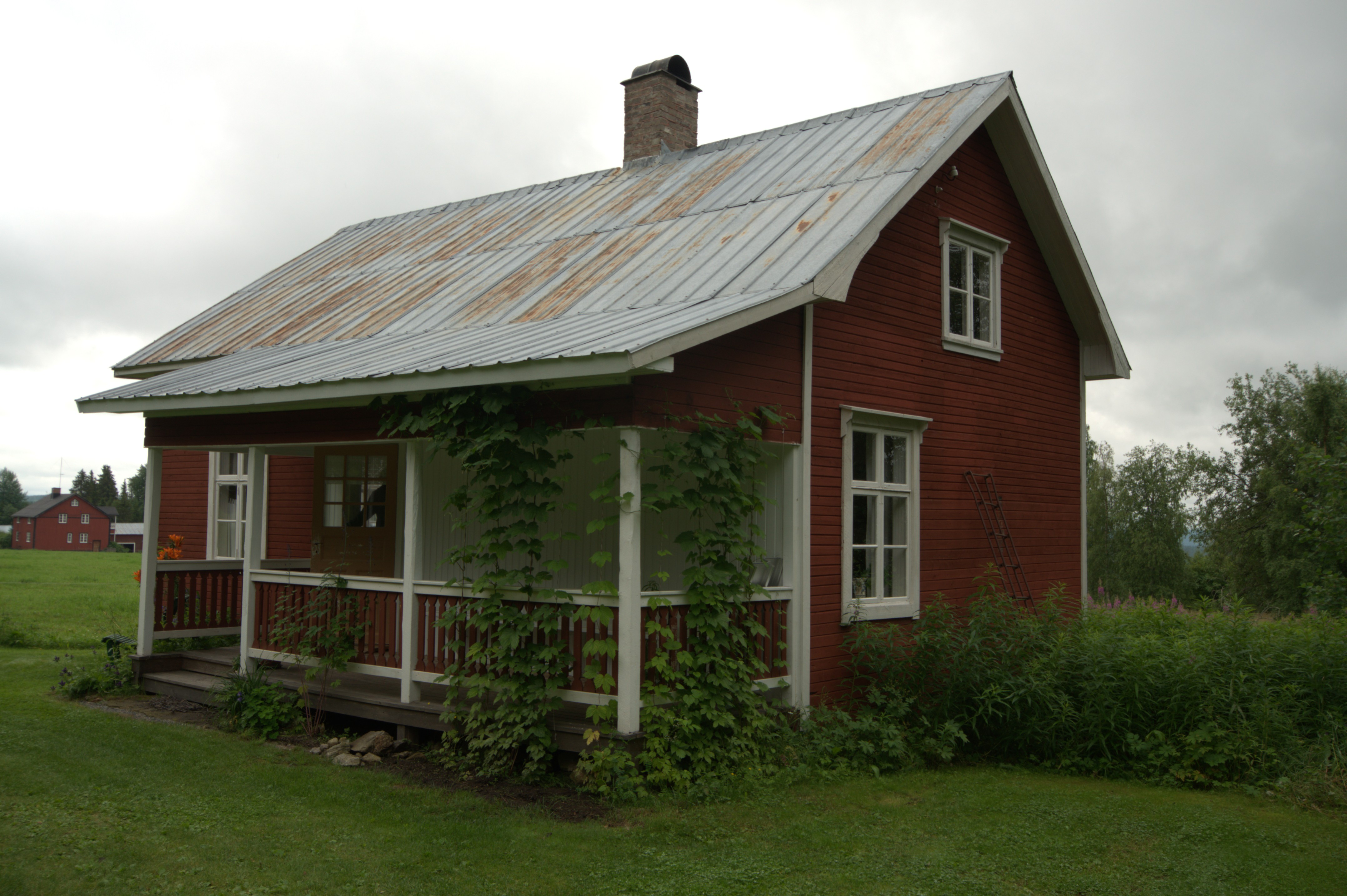 Lindgrens farmors hus i Raggsjö.